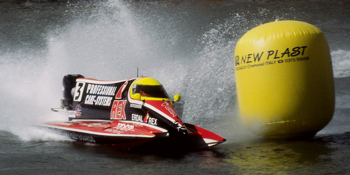 Formula 1 Powerboat rounding a turnbuoy